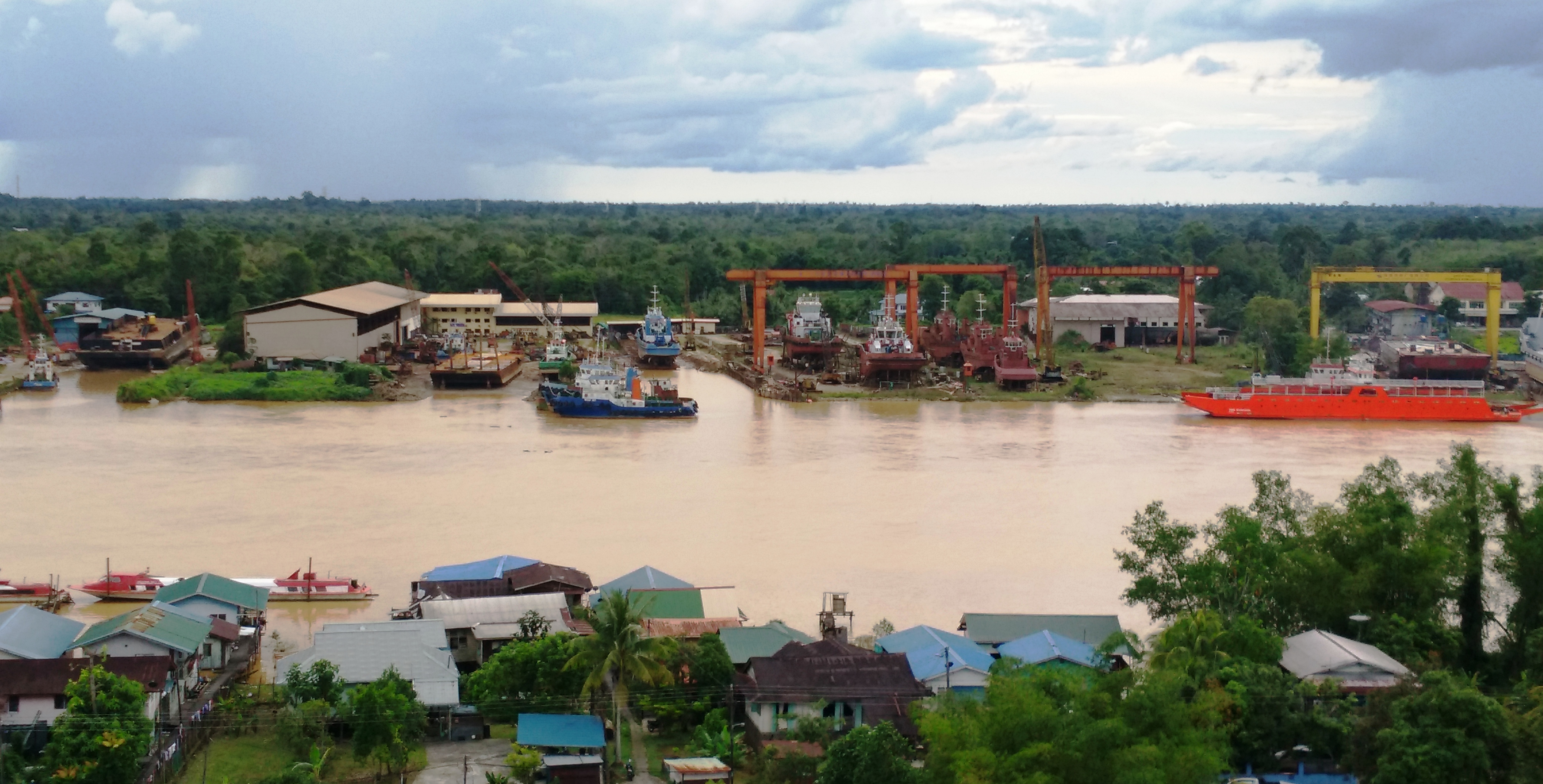 Toung Aik Shipyard Sdn Bhd along the Igan river. Photo taken from the top floor of the Sibu Islamic complex.